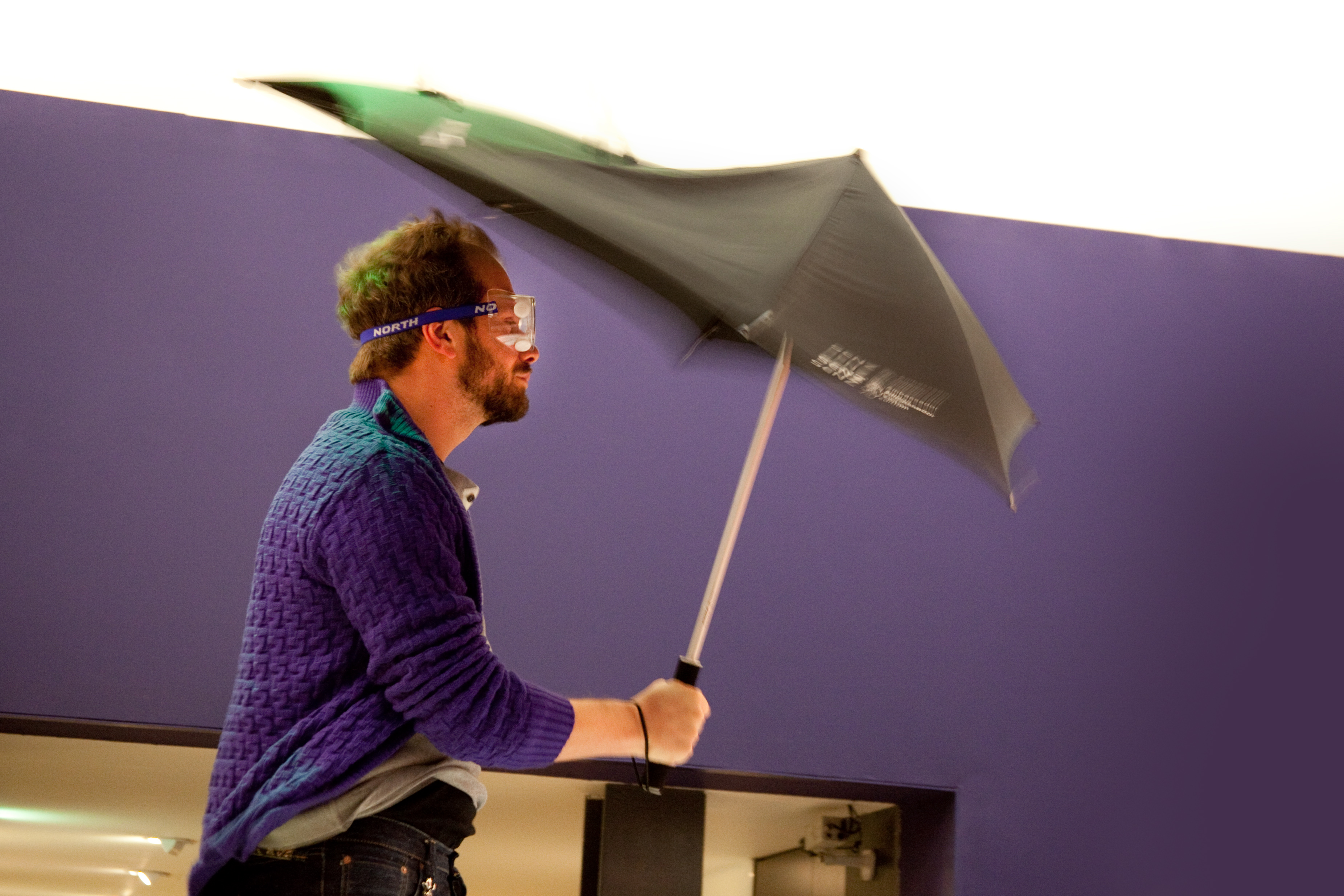 The SENZ umbrella, develloped at the Delft University of Technology, withstanding stormy winds. Picture taken at the Kunsthal exhibition on Dutch Design